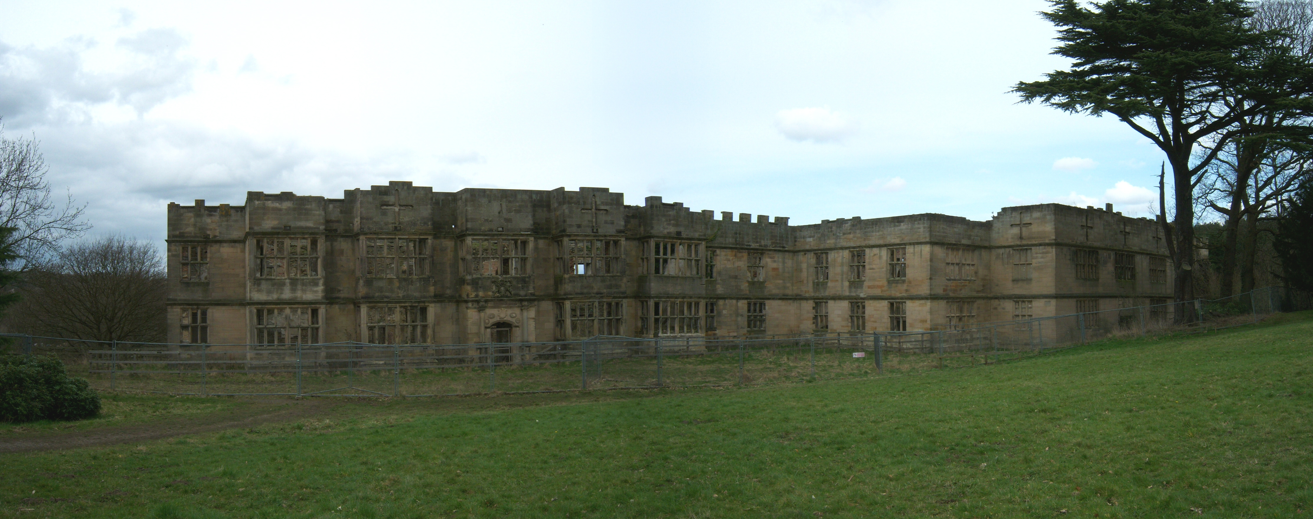 The shell of the Main house on the Gibside National Trust estate near Rowlands Gill in north east England.